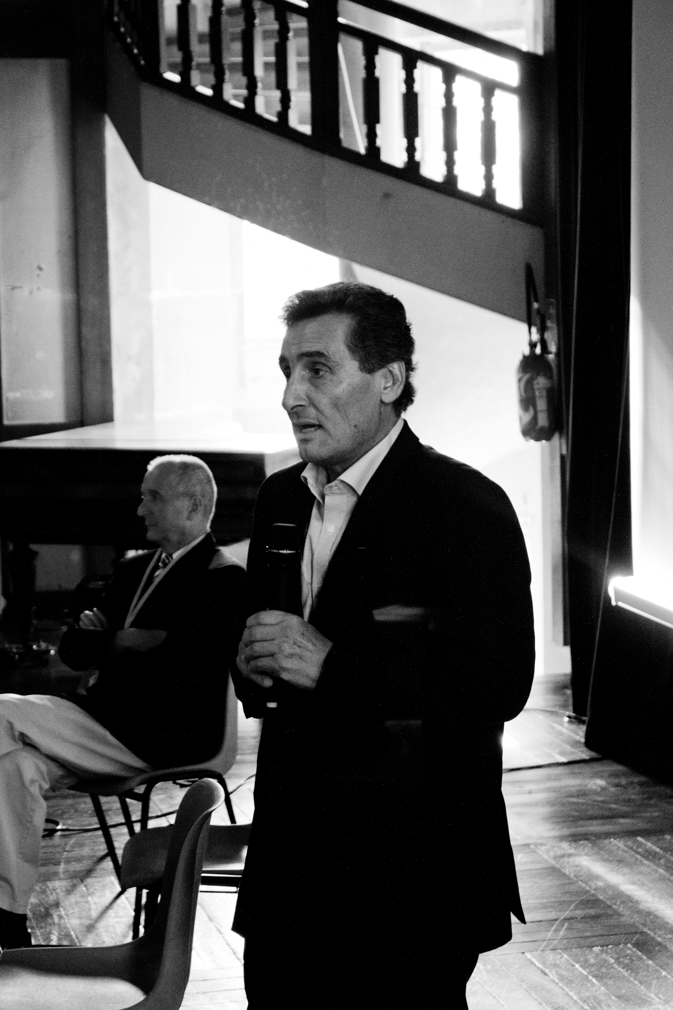 Mohed ALTRAD